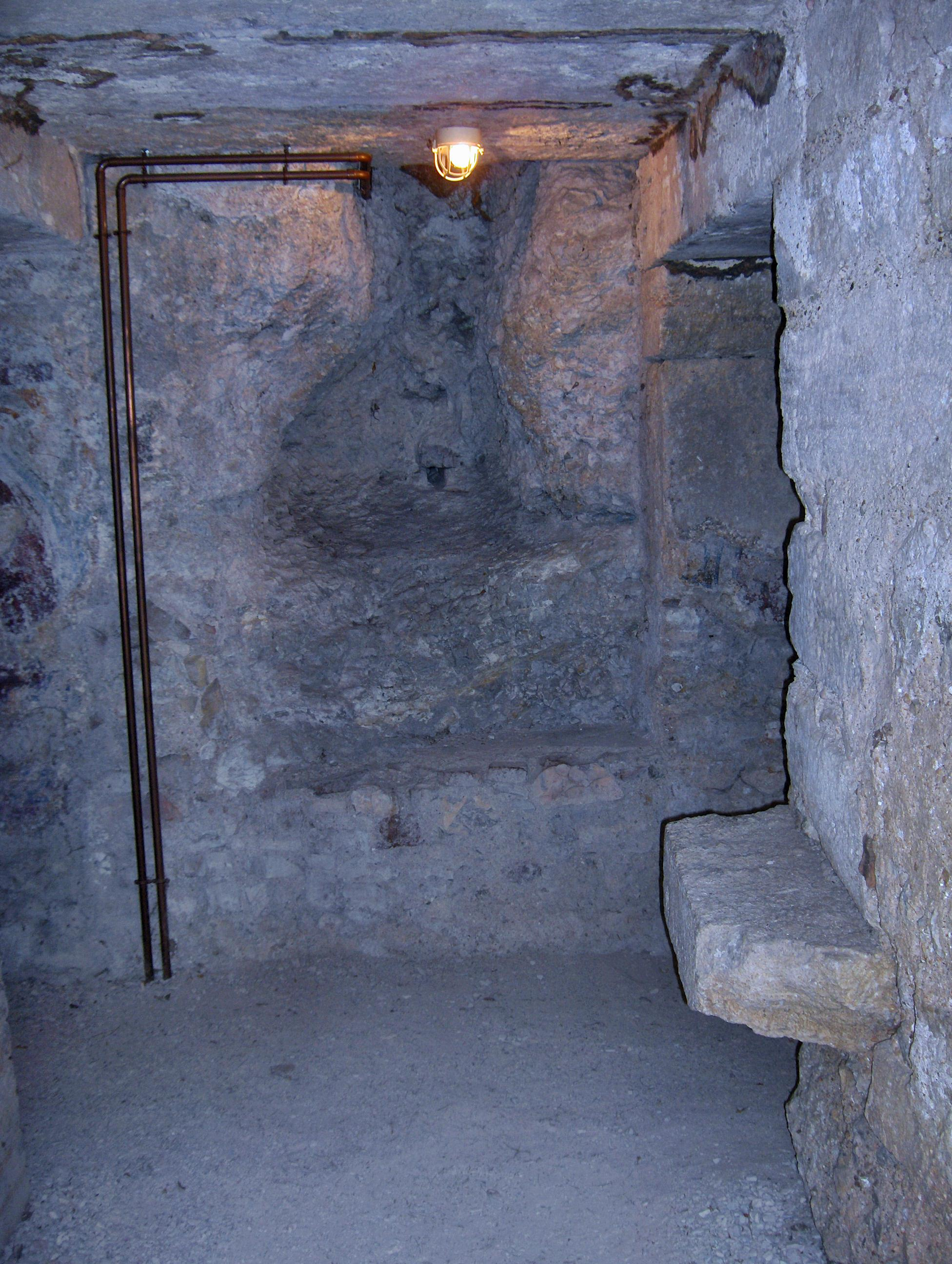 The former Roman temple dedicated to the river god Clitumnus and transformed into an early-Christian church (probably in the fourth century); fresco from the 8th century, the oldest in Umbria; located in Campello sul Clitunno, south of Trevi, Italy.